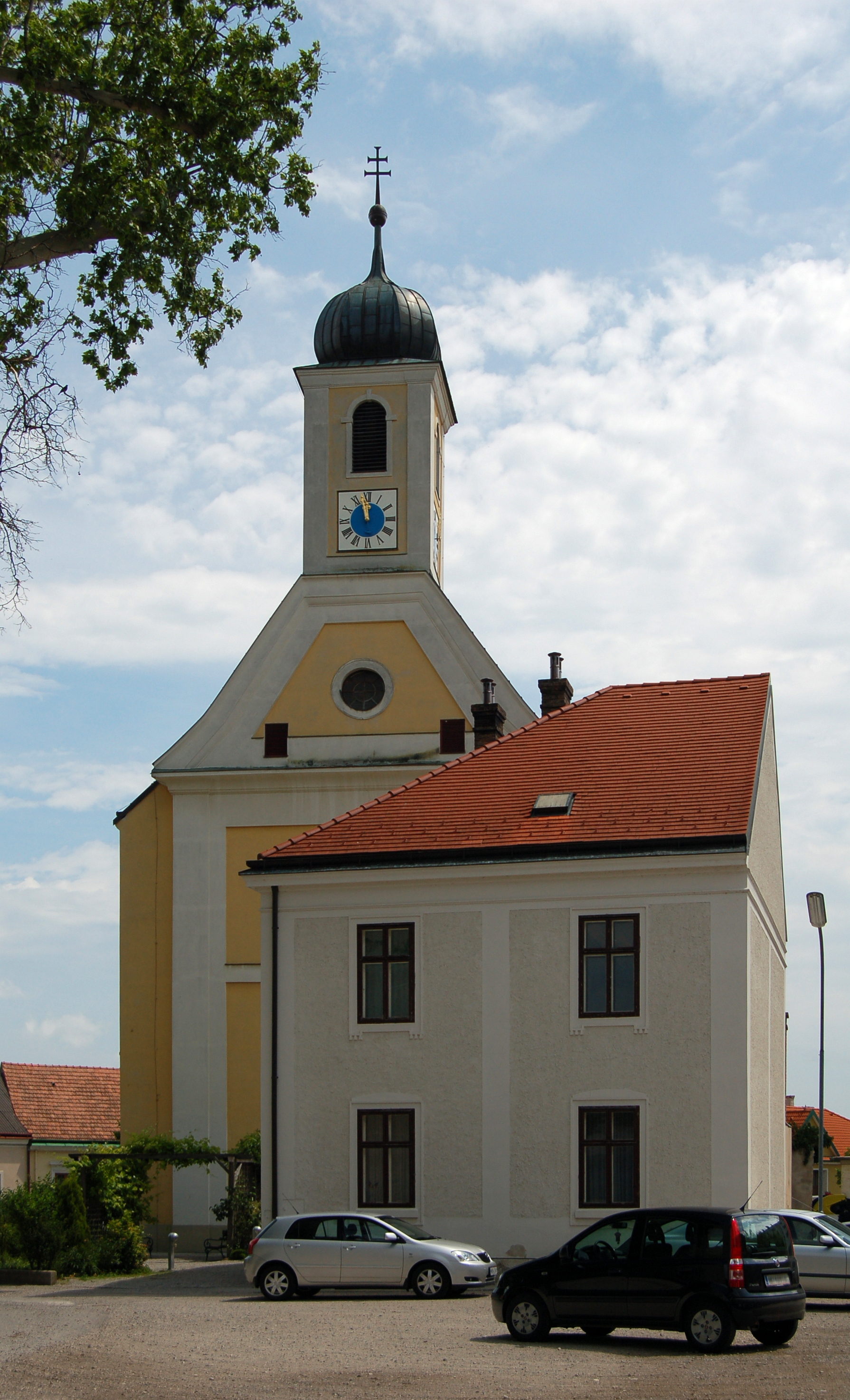 Parish church St. Andrew and rectory in Schönau an der Triesting, Lower Austria.